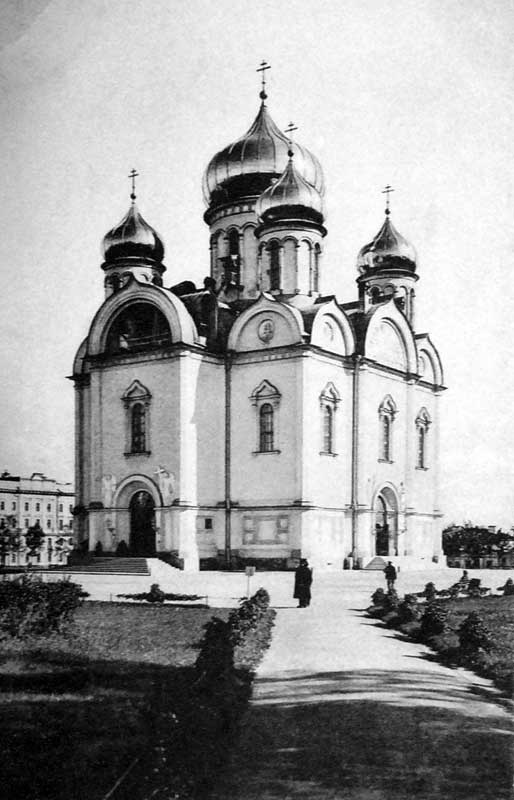 Saint Catherine cathedral in Tsarskoye Selo